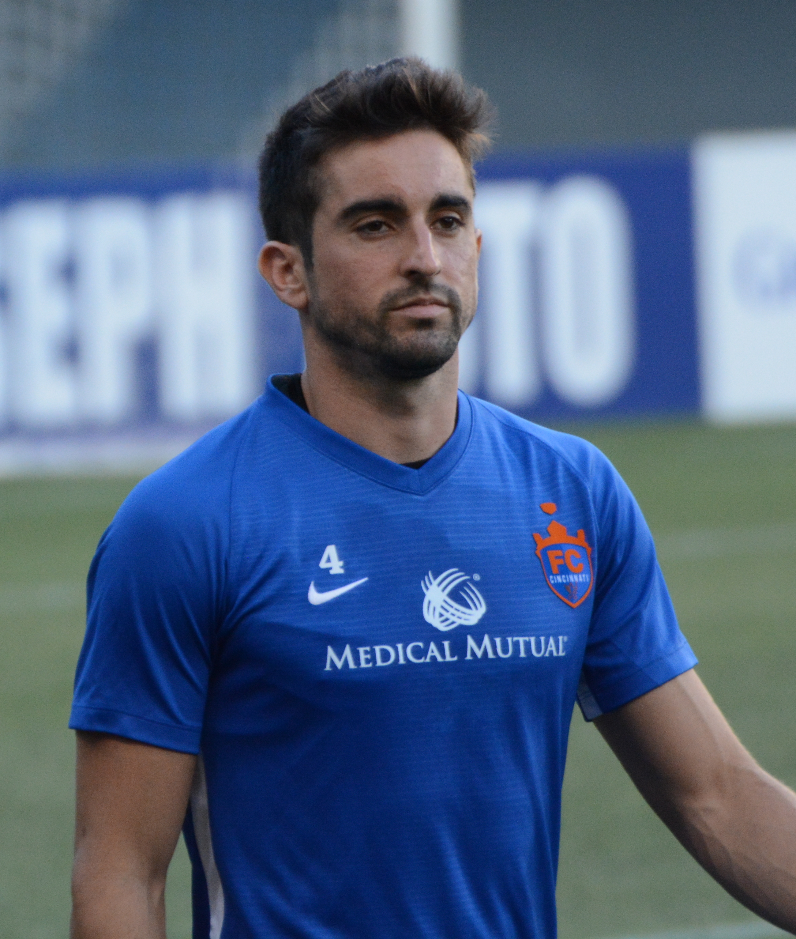 Taken during a USL regular season match between FC Cincinnati and Pittsburgh Riverhounds at Nippert Stadium in Cincinnati, USA on September 1, 2018.